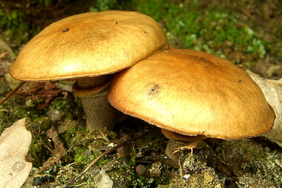 Scientific Name: Suillus luteus Common Name: Slippery Jack Certainty: positive (notes) Location: Southern Appalachians; Pisgah NF; Spivey Gap